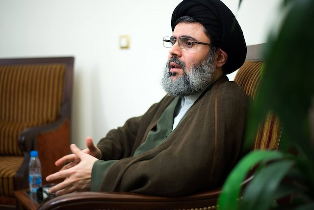 Chairman of the Executive Council of Hezbollah in Lebanon, Sayyed Hachem Safieddine.